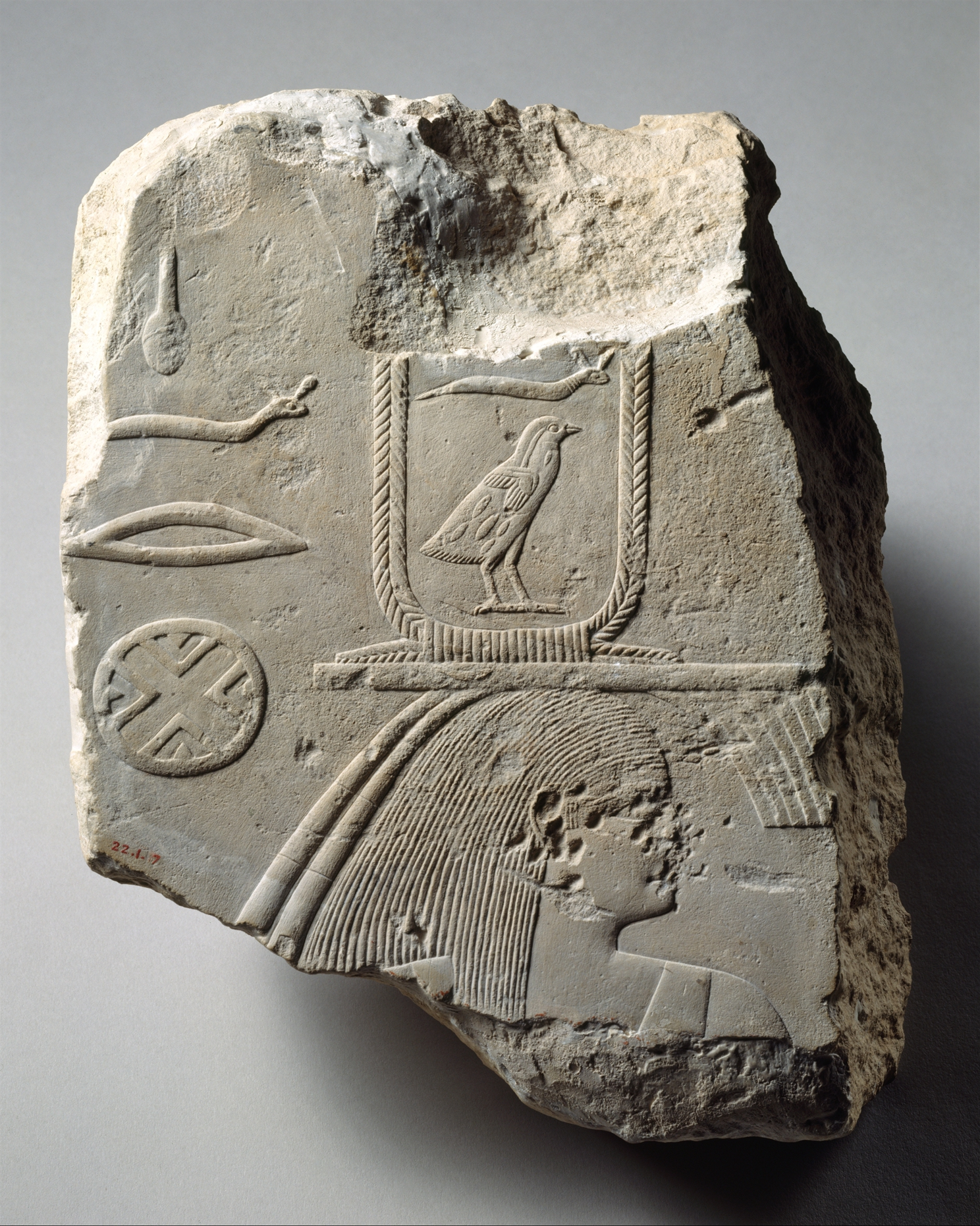 Relief, female personification of an estate